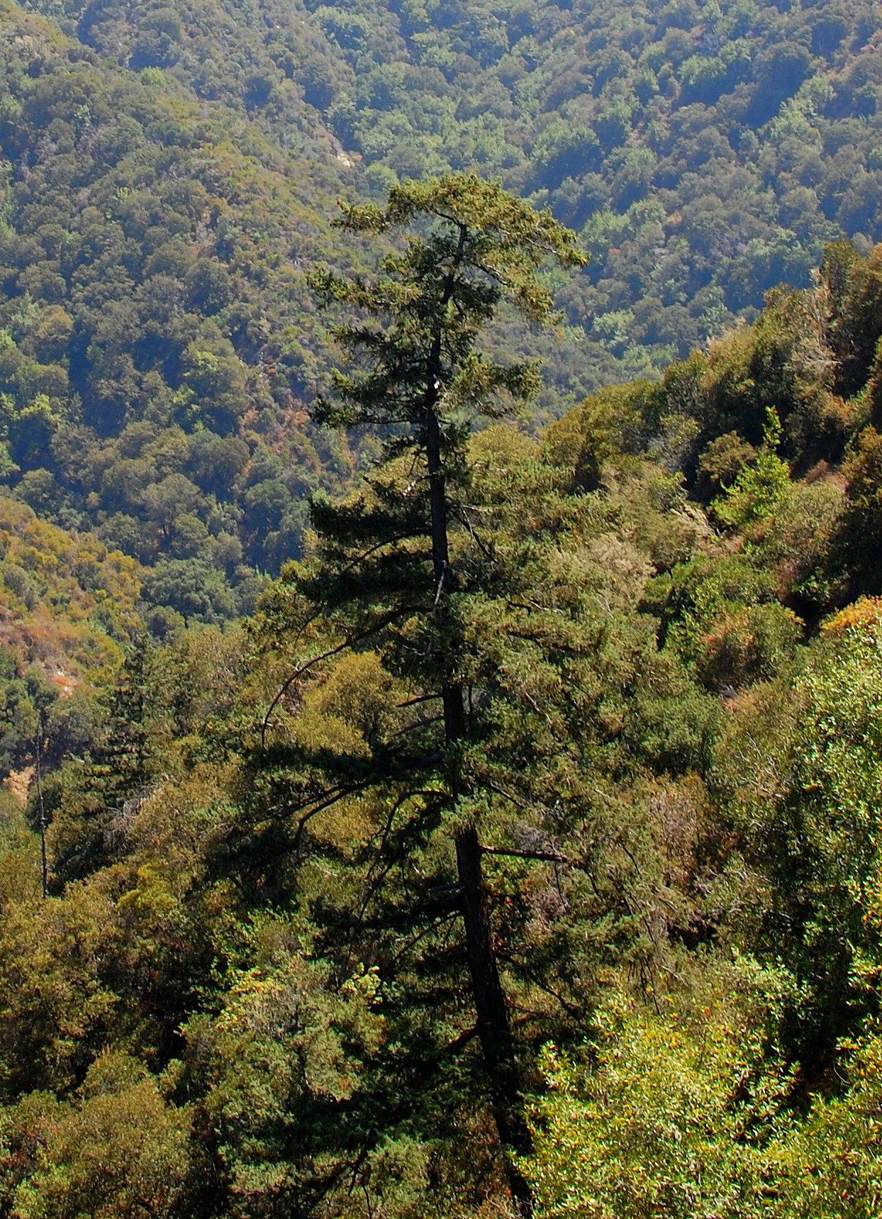 Pseudotsuga macrocarpa, Big Santa Anita Canyon, San Gabriel Mountains, approx 30km NE of Los Angeles, California.